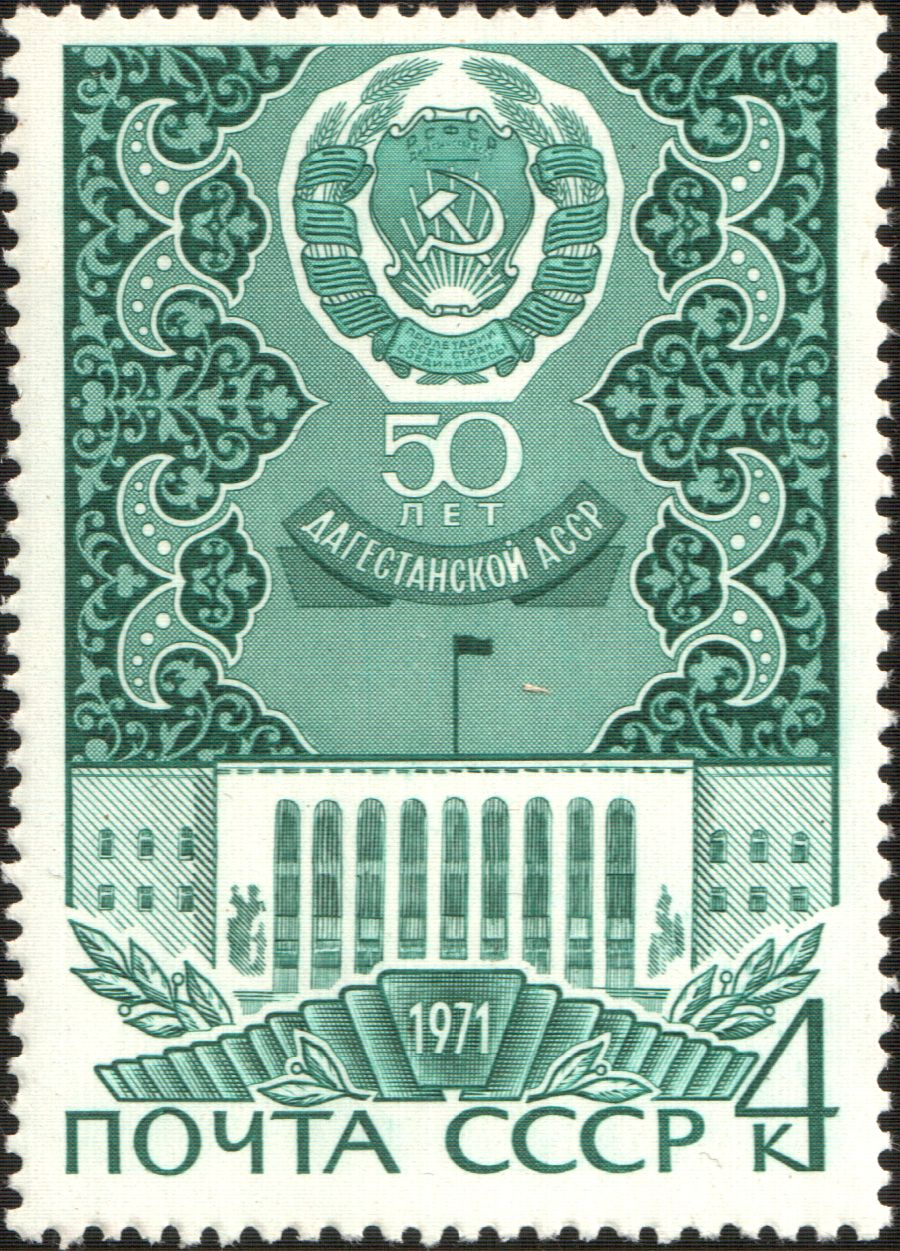 USSR stampː Dagestan Autonomous Soviet Socialist Republic (Established on 1921.01.20). Seriesː 50th Anniversary of the Autonomous Republics of the Soviet Union